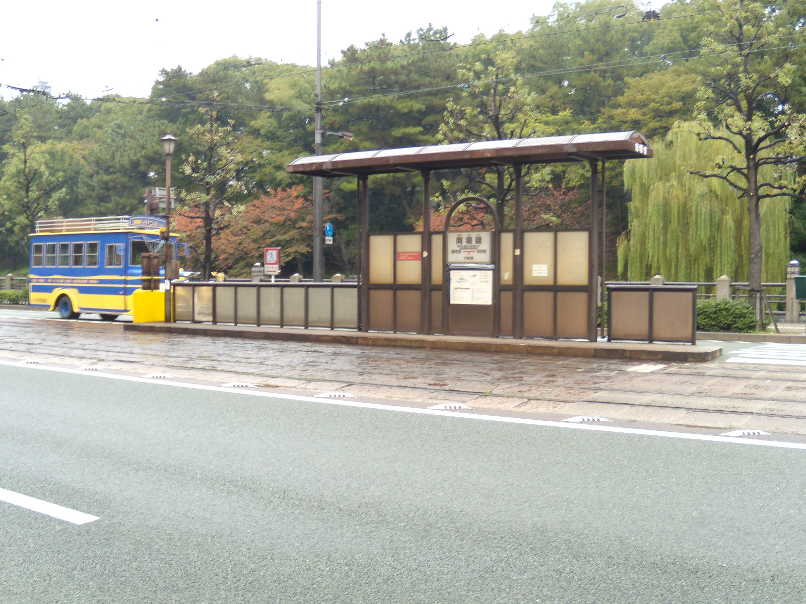 Iyo Railway Minami-Horibata Station, platform for Matsuyamashi and Okaido